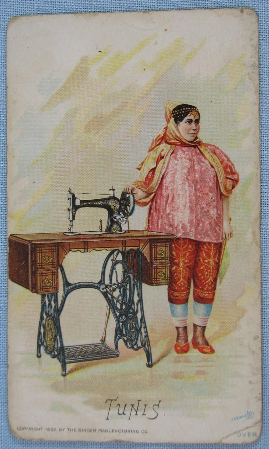 Singer 1892 trade cards - Tunis - front